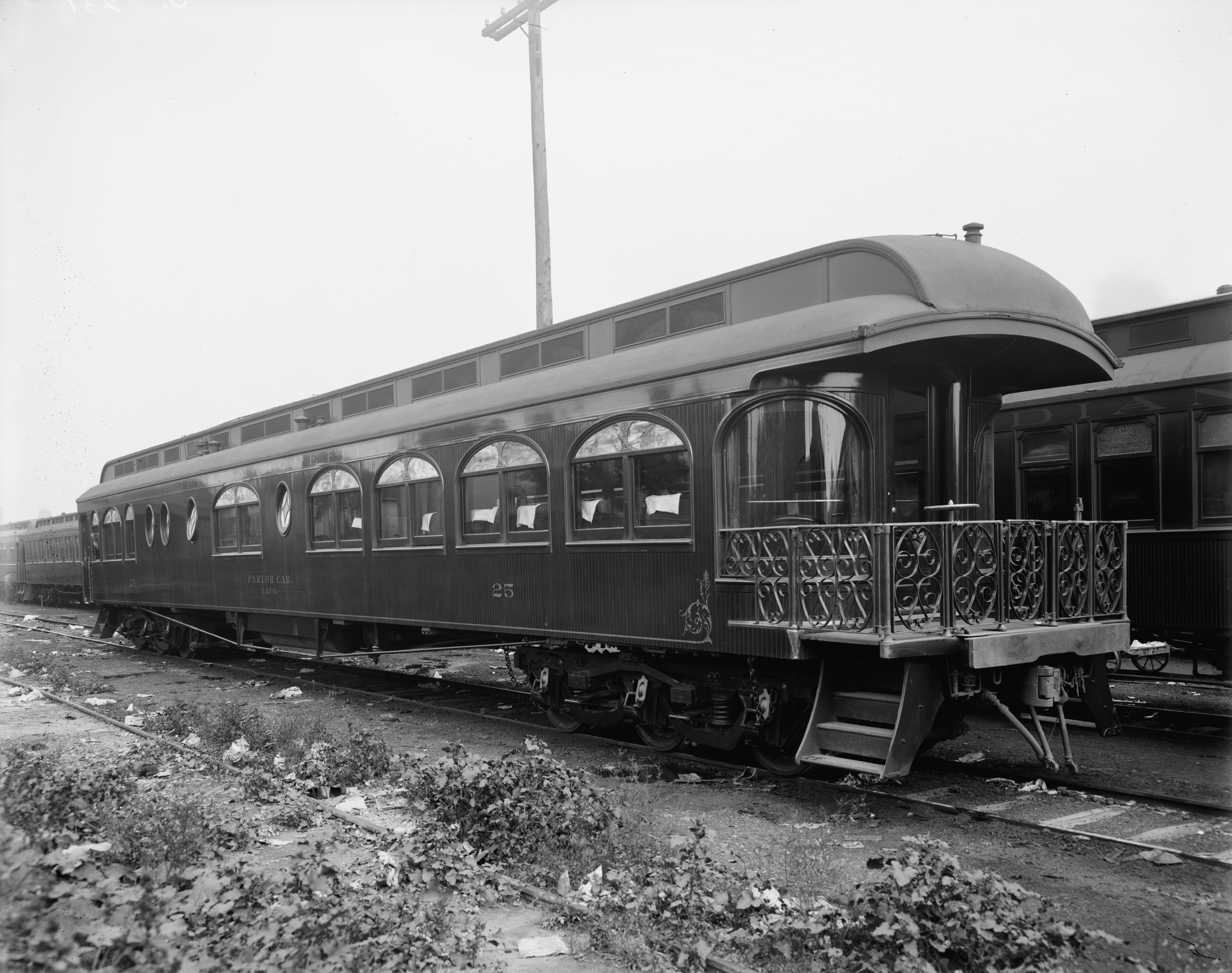 Pere Marquette Railroad parlor car no. 25.